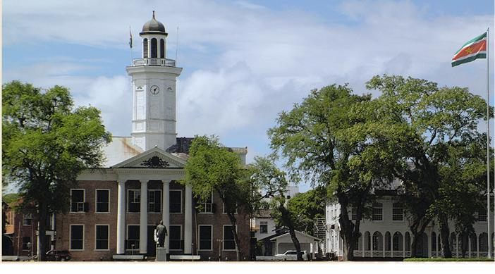 Ministry Department building of Finance in Suriname.